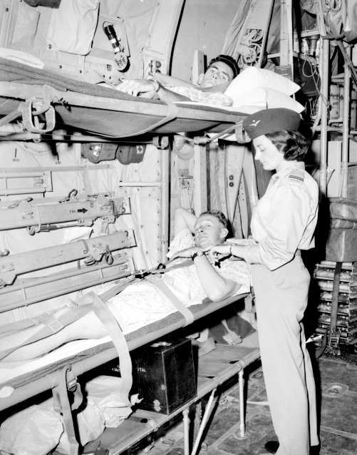 Long hours of tending to the medical needs of this wounded Australian digger await RAAF nursing officer, N61450 Nurse Jane Elizabeth Passmore, of Hobart, Tas, as she checks his condition on board an RAAF Hercules transport aircraft en route to Australia from South Vietnam. Section Officer (Sect Off) Passmore was making her fourth aero medical flight by Hercules from Vietnam to Australia. Since it was announced in July 1965 that the aero medical evacuation of Australian Army casualties from South Vietnam to Australia would be a RAAF responsibility, RAAF nursing officers like Sect Off Passmore have flown many thousands of miles.